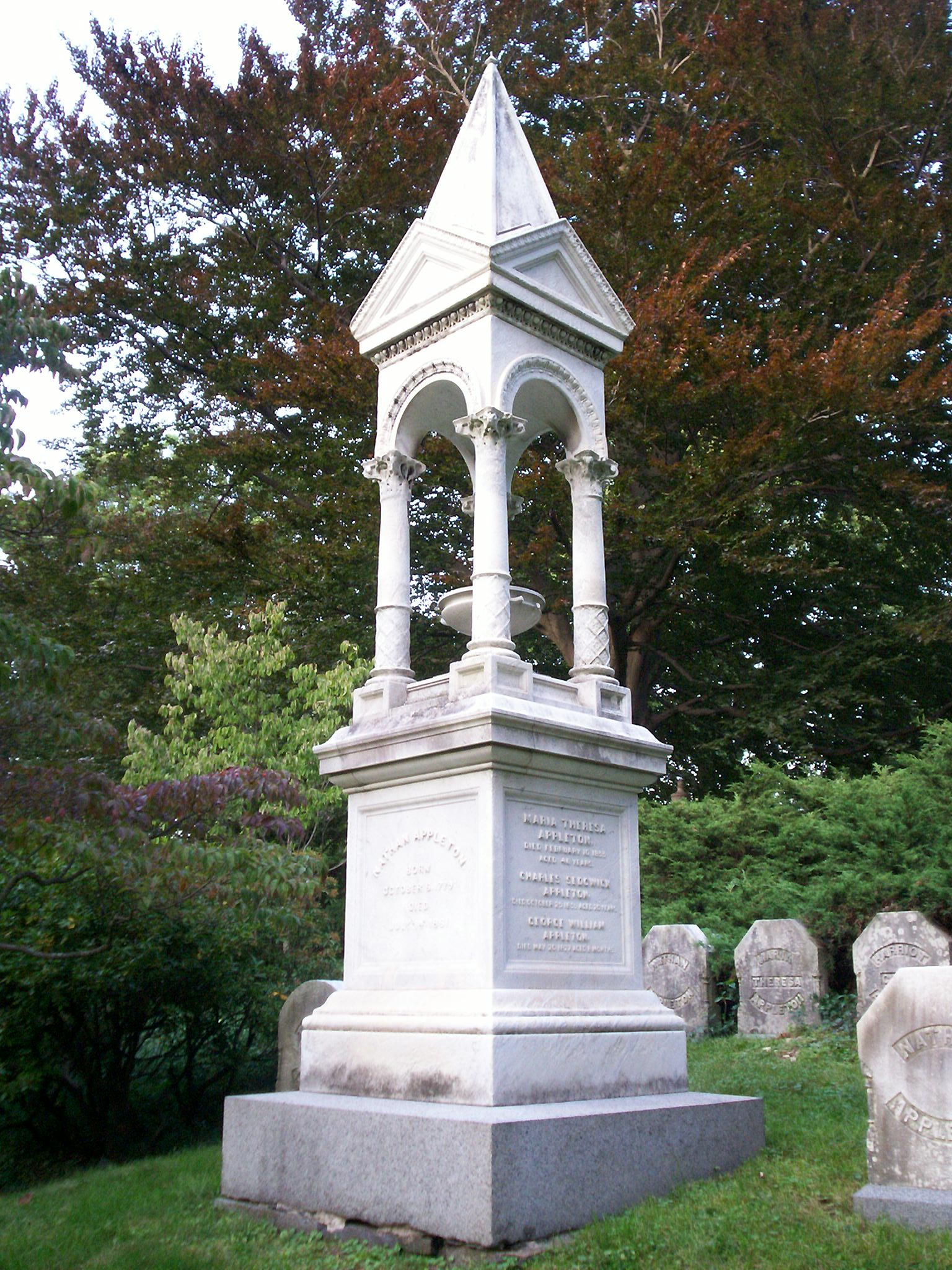 Headstone for Appleton family plot at Mount Auburn Cemetery in Cambridge, Massachusetts. Marks burial spot of Nathan Appleton, businessman and politician.